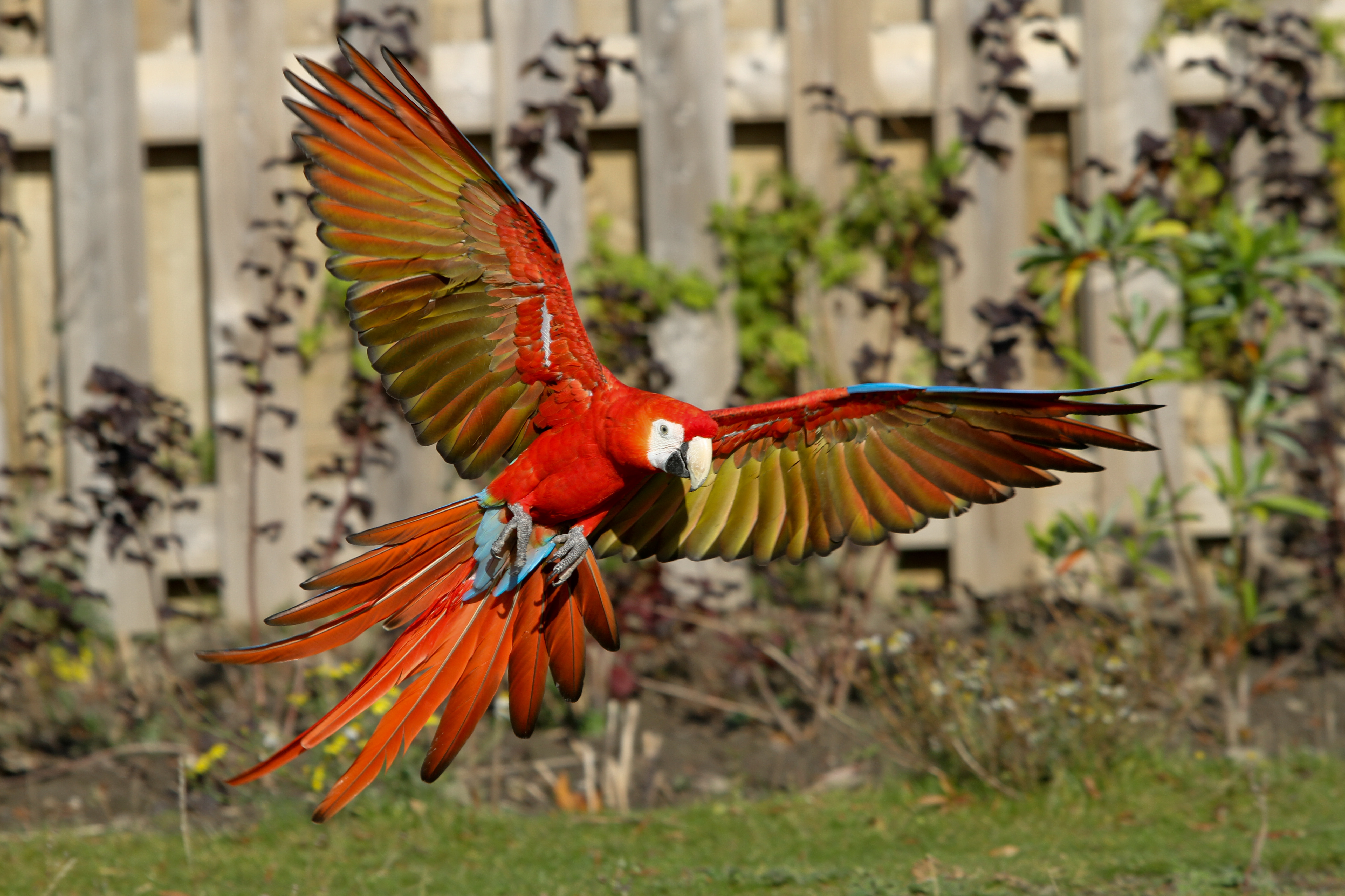 Scarlet Macaw at Diergaarde Blijdorp, Rotterdam, Netherlands.